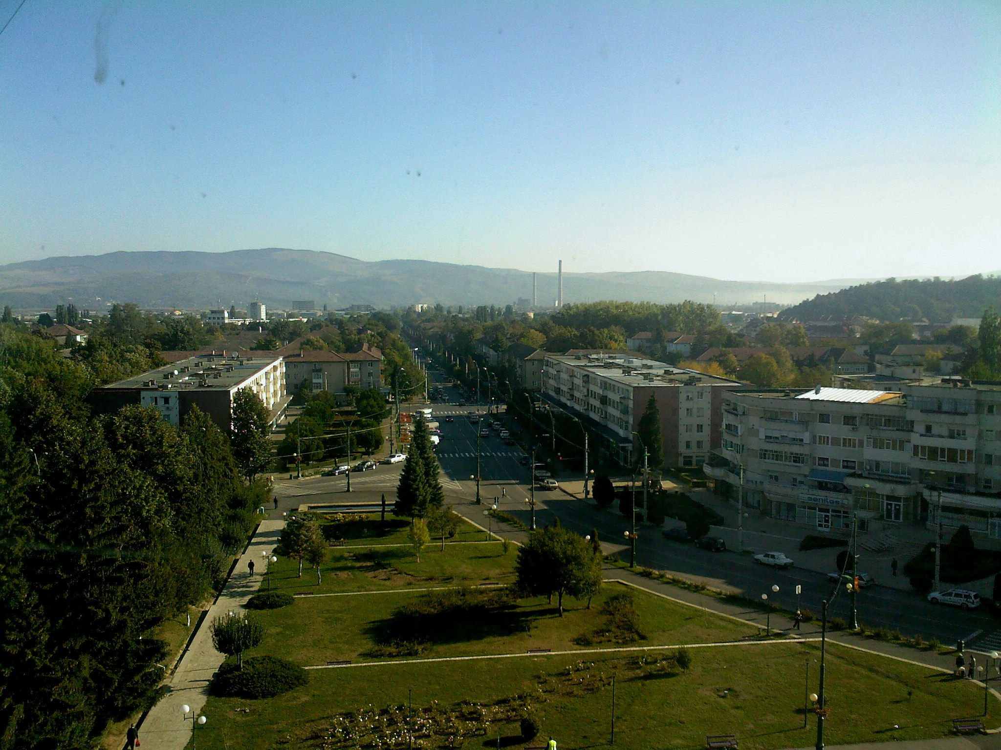 Onesti as seen from the Trotus Hotel, 9th floor.